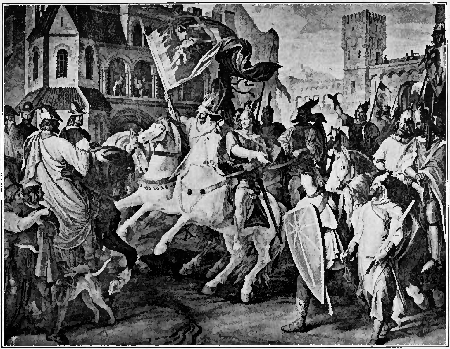 Captioned as "Siegfried's Triumphant Entry into Burgundy with Captives and Spoils".